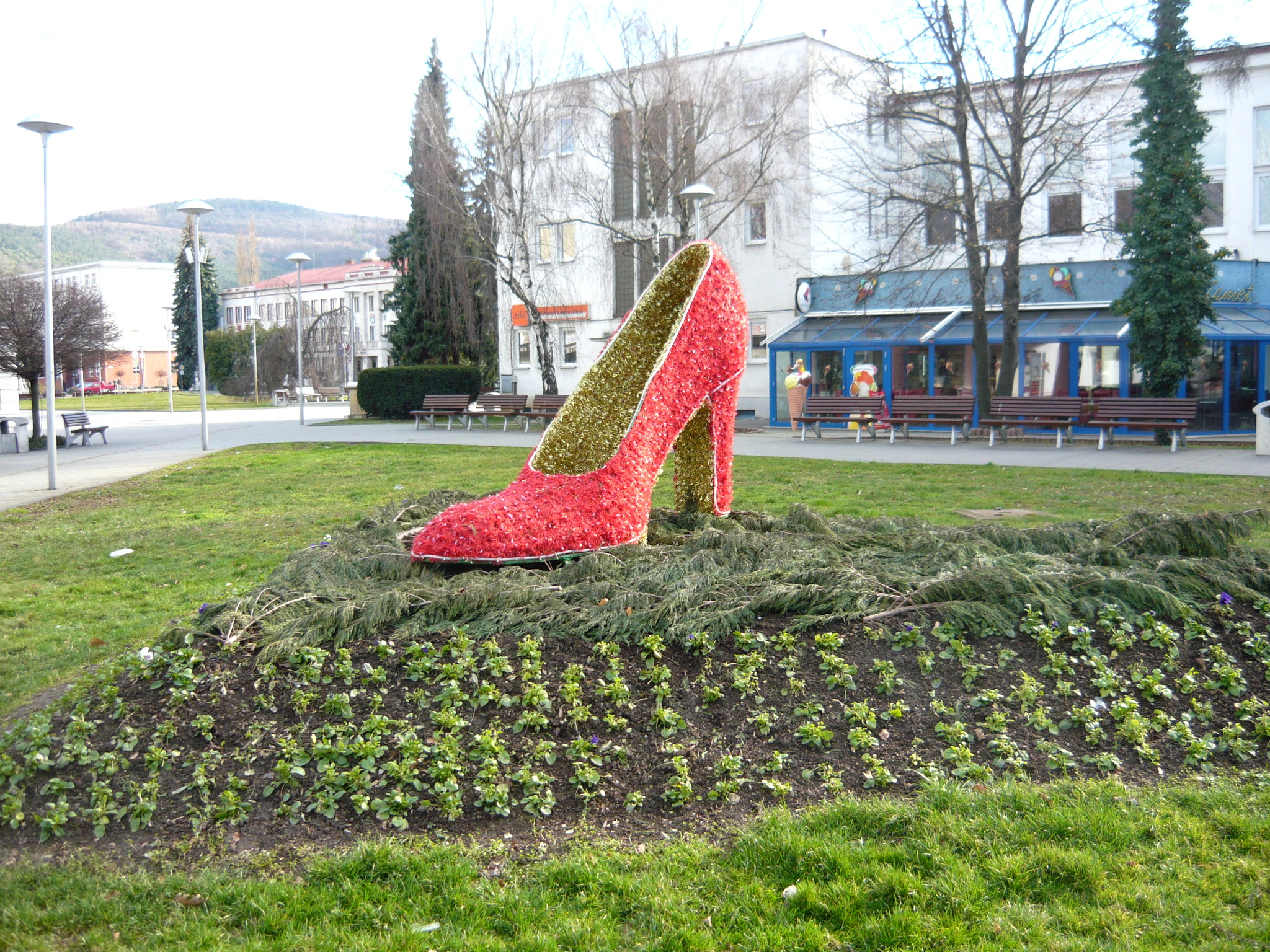 Shoe in Partizánske, Slovakia.